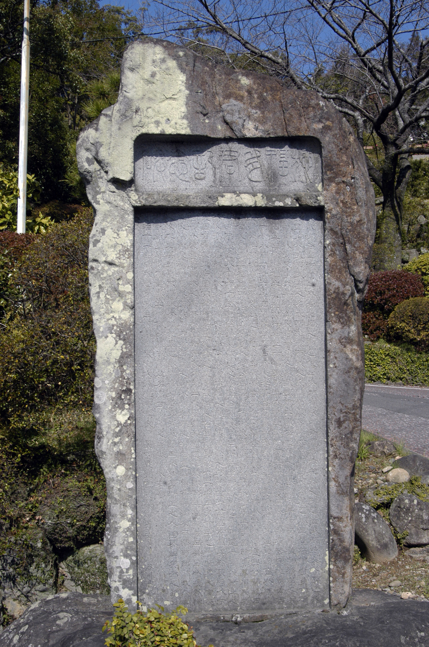 Siebold Memorial in Nagasaki erected in 1879 in honor of the Germany physician Philipp Franz von Siebold (1796-1866). The place was once called Siebold Park, now it is part of the Suwa Park.